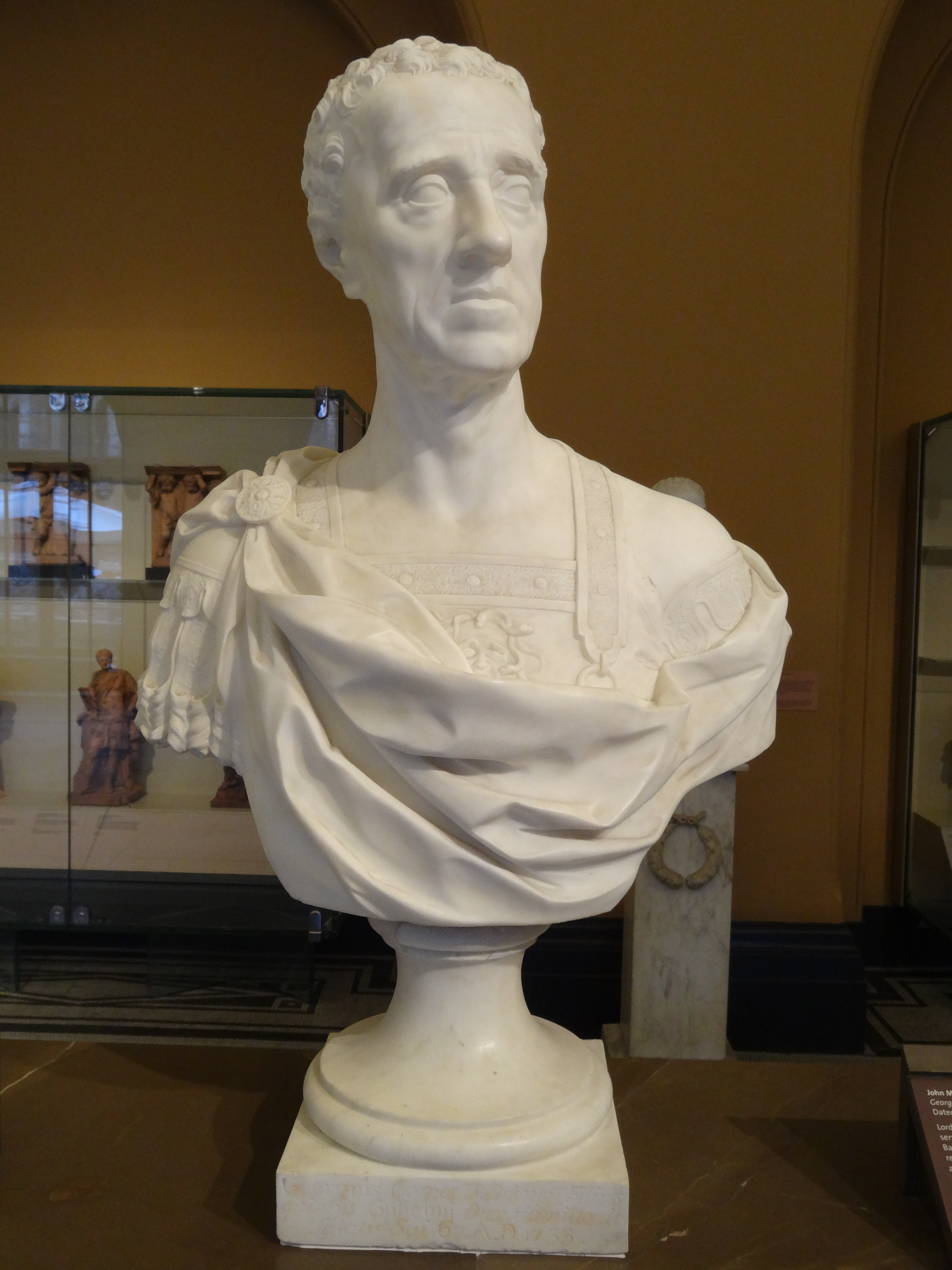 George Hamilton, 1st Earl of Orkney by John Michael Rysbrack with thanks to the V&A for allowing photography